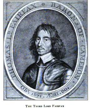 The Third Lord Fairfax. Thomas Fairfax, Baron of Cameron.